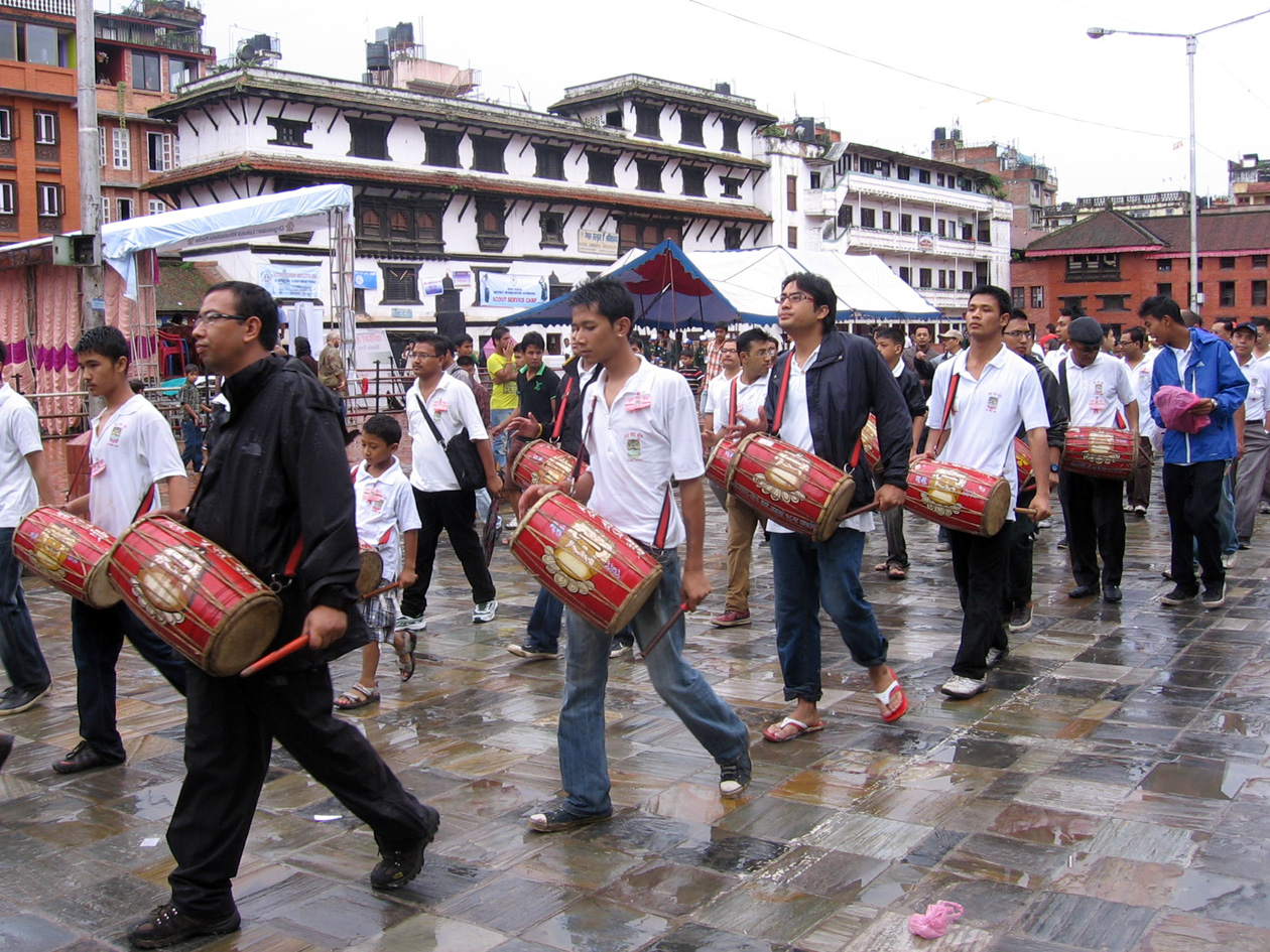 Gunla Bajan drum players marching in procession in Kathmandu, Nepal.